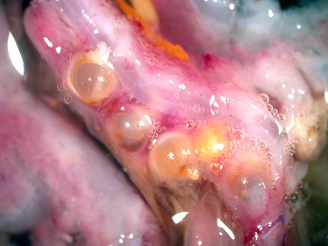 Pomphorhynchus from Bluefish (Pomatomus saltatrix)